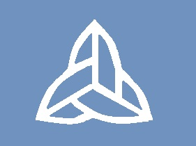 Flag of Ochi Kochi